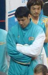 takamatsufivearrows